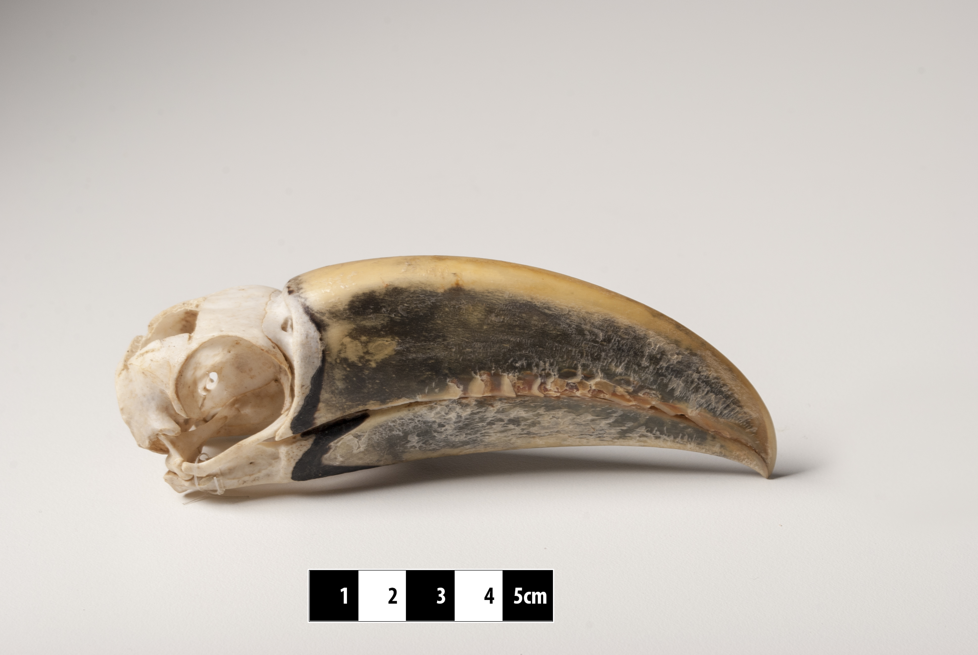 Technique of bone maceration on display at the Museum of Veterinary Anatomy, FMVZ USP